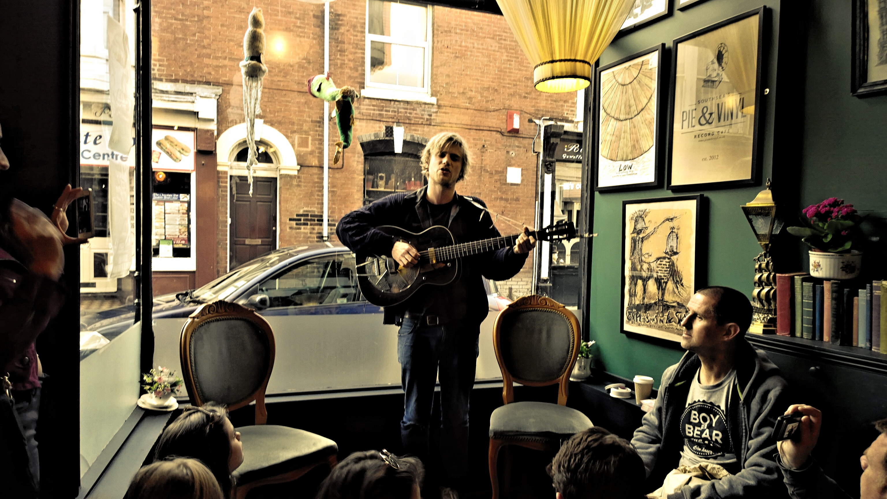 Johnny Flynn, Pie & Vinyl, Southsea